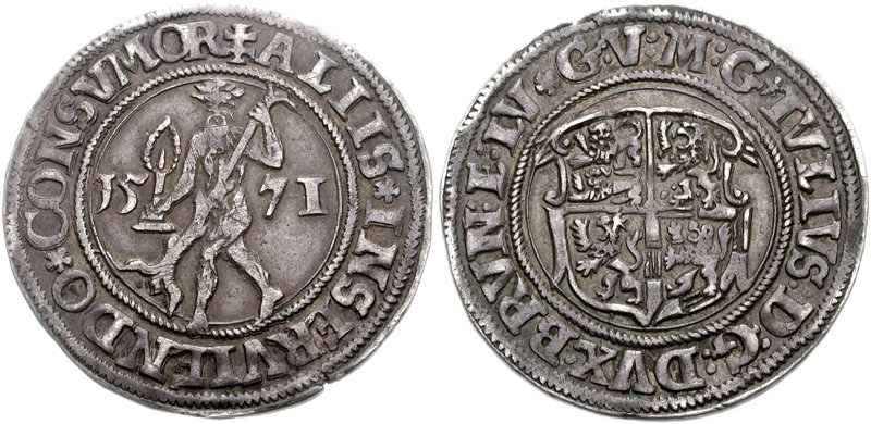 GERMANY, Braunschweig-Wolfenbüttel. Julius. 1568-1589. AR Viertel Lichttaler (30mm, 7.17 g, 7h). Zellerfield mint. Dated 1571. * CONSVMOR ALIIS * INSERVIENDO, Wildman advancing left, holding uprooted tree with left hand and candle in right hand; 1571 across field / * IVLIVS : D : G : DVX • BRVN : L LV (rosette) G : V : M : G, coat-of-arms. Welter 591; cf. Davenport 9060 (lichttaler). Good VF, toned. Rare denomination.